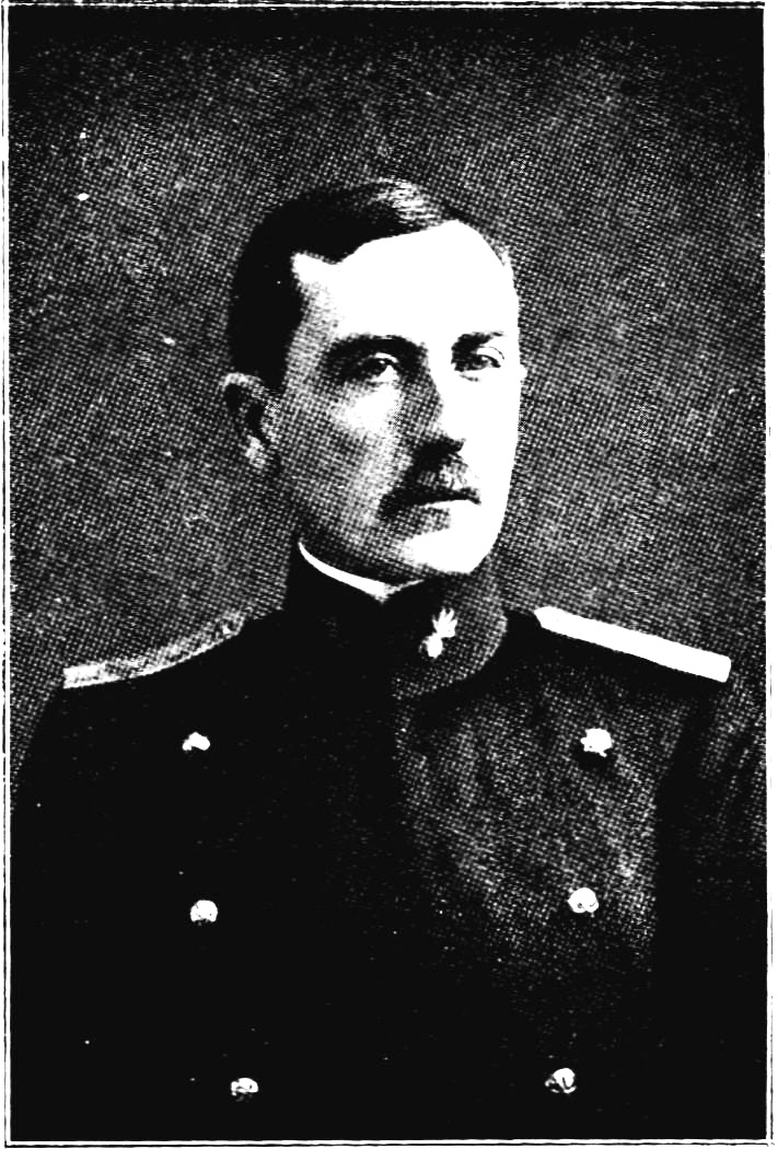 Portrait of René de Saussure, a Swiss esperantist, interlinguist and professional mathematician; brother of Ferdinand de Saussure.